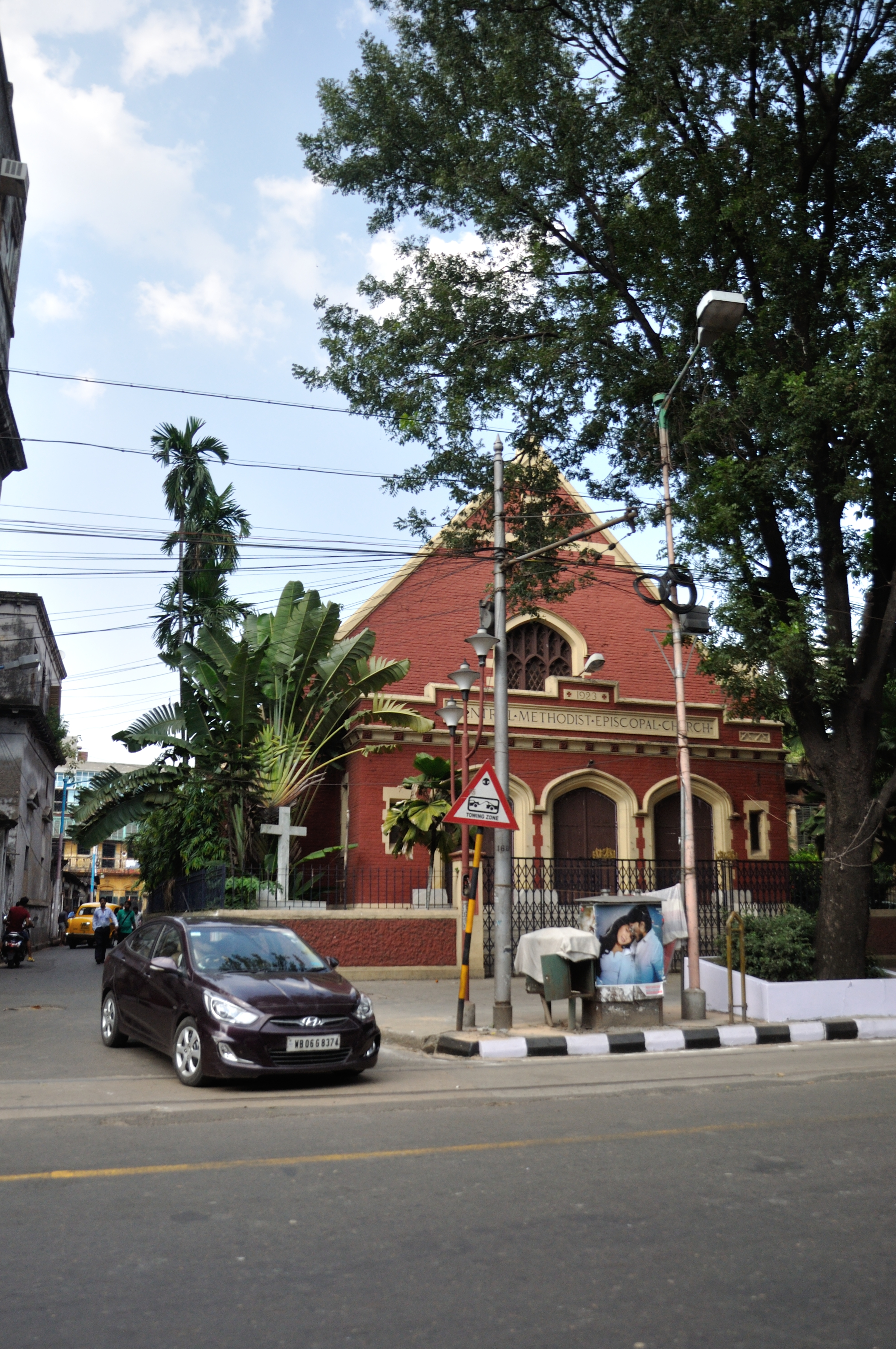 Photographed in Kolkata.